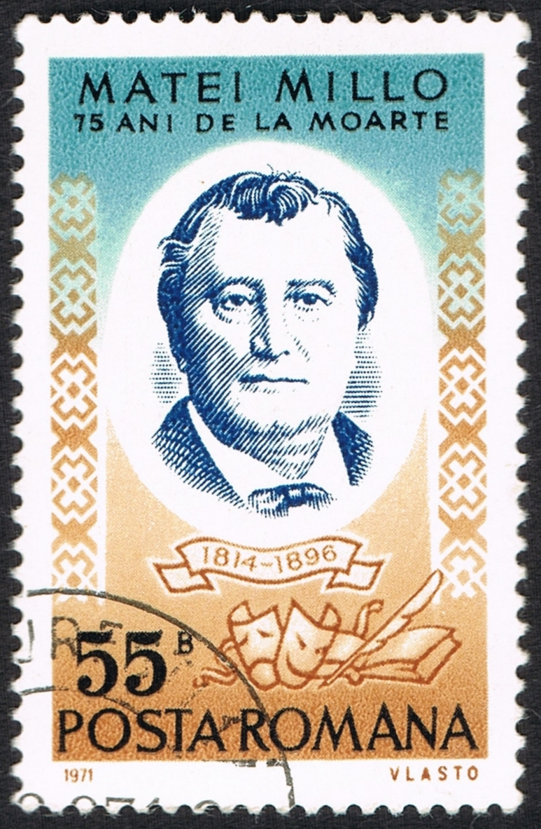 scanned stamp from Rumanian post (Posta Romana). Matei Millo (1814 - 1896), actor Michel stamp catalogue (East-Europe part 4) number: 2999